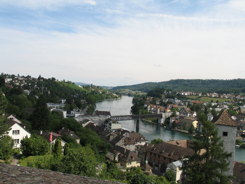 The city of Schaffhausen from the castle